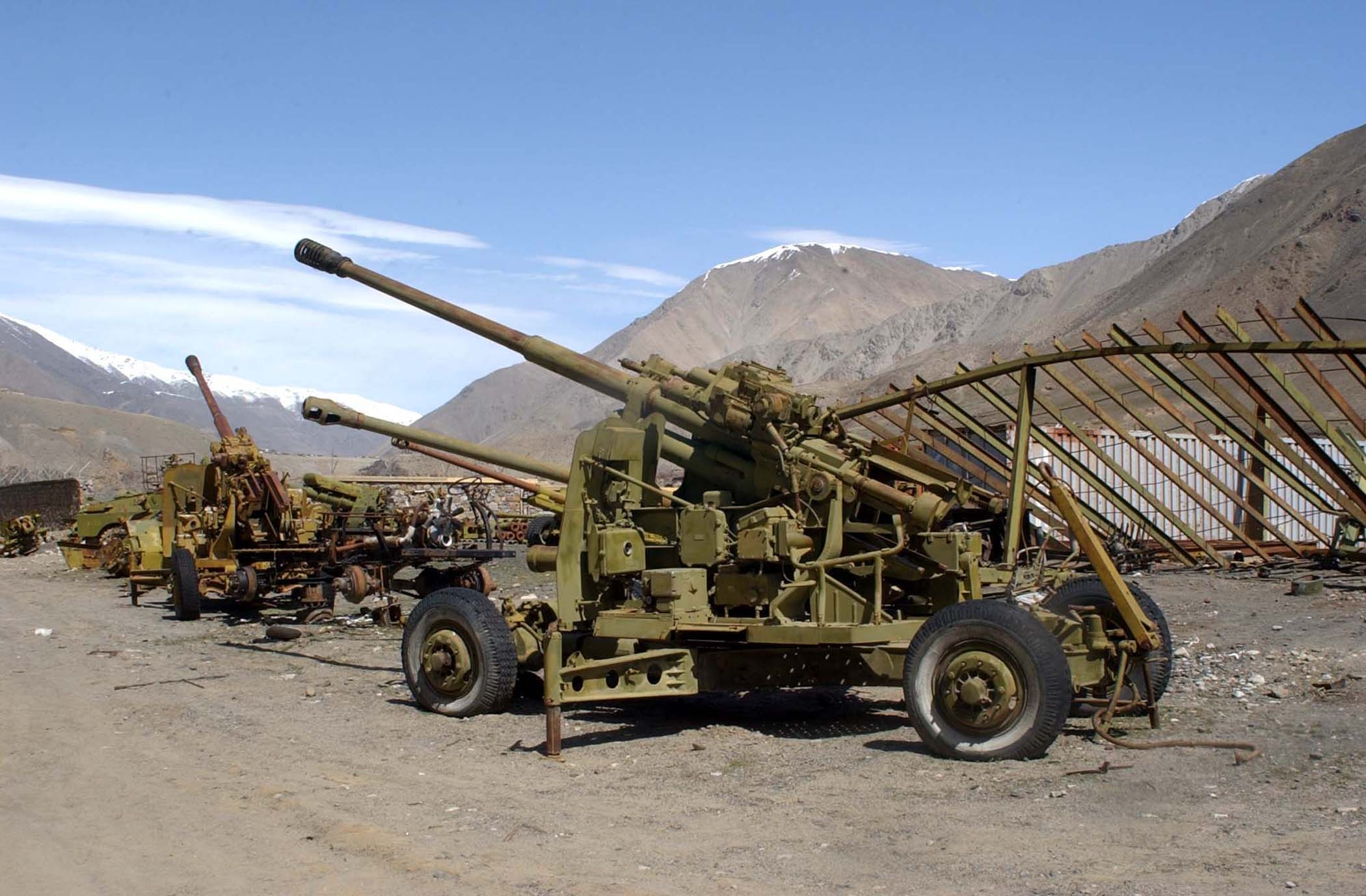 Pieces of Soviet artillery and equipment from failed invasions fill a junkyard in Panjshir Province.